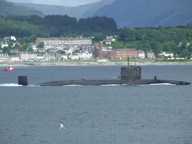 Submarine passing Kirn Viewed from near Cloch lighthouse.